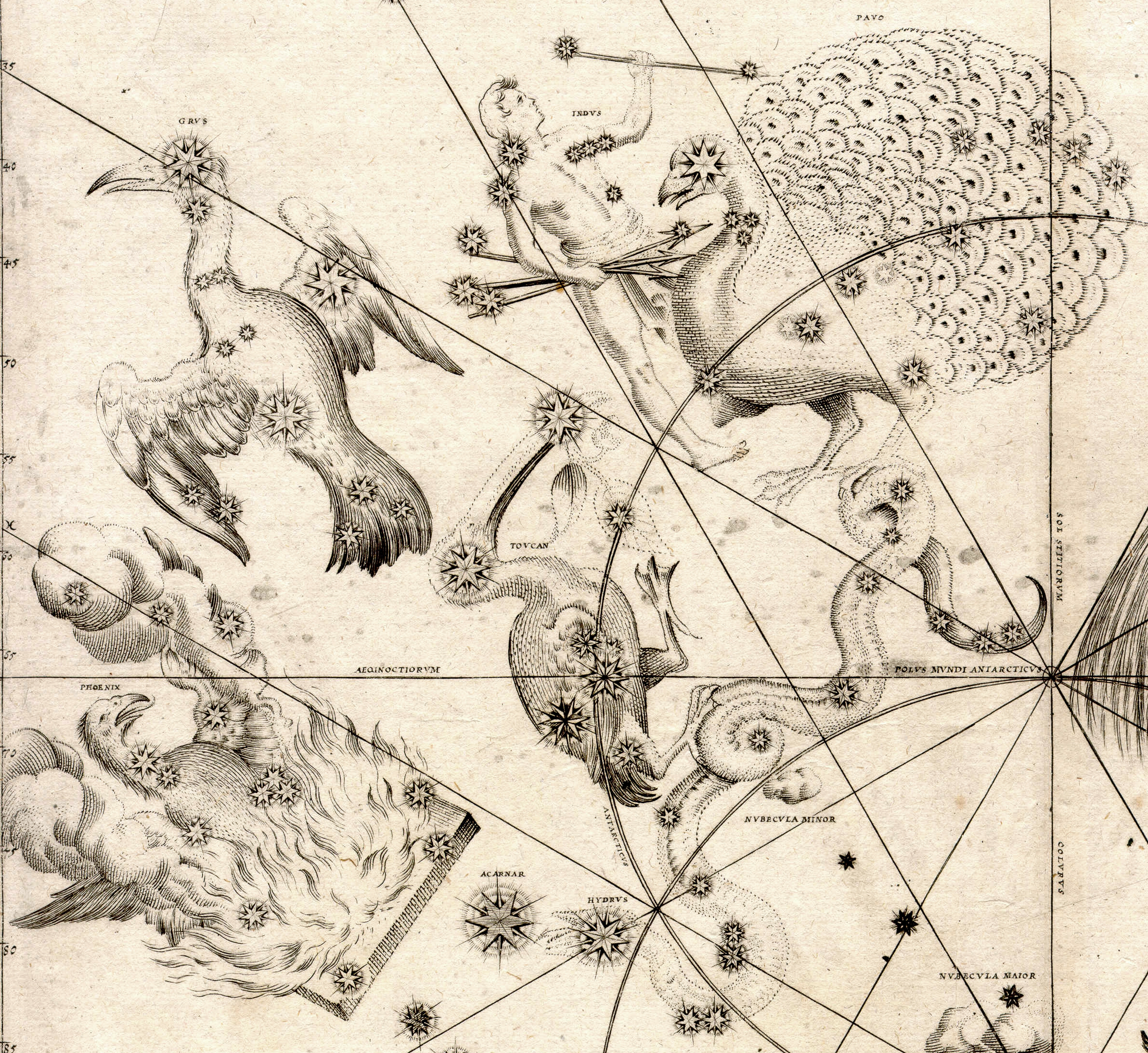 The "Southern Birds", Pavo, Phoenix, Grus, and Tucana from Johann Bayer's Uranometria of 1603, the first celestial atlas to include the southern constellations. Indus and Hydrus also appear.